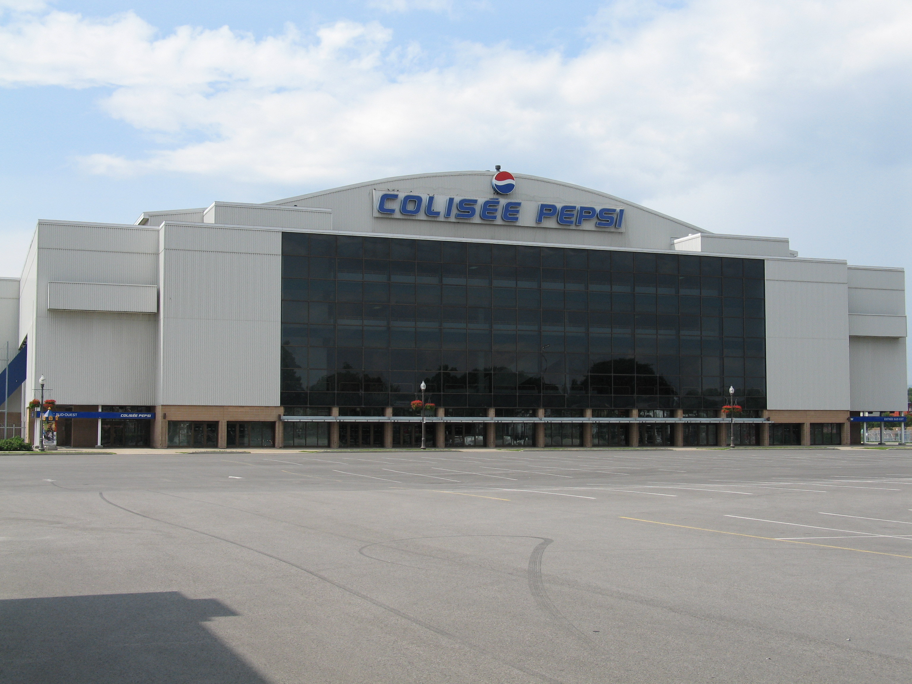 The Colisée de Québec, home of the Quebec international pee-wee tournament, the Quebec Remparts of the QJMHL, the Radio X of the NAHL and the now defunct Quebec Nordiques, of the National Hockey League. (Photo:Claude Boucher